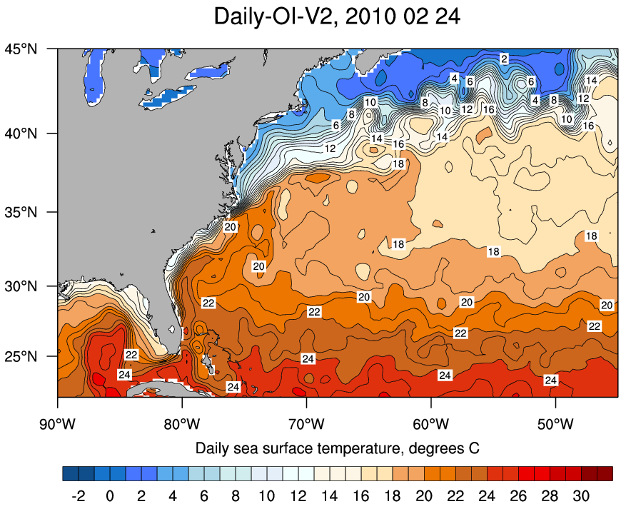 Data: NOAA Optimum Interpolation 1/4 Degree Daily Sea Surface Temperature Analysis Example of PyNGL module output